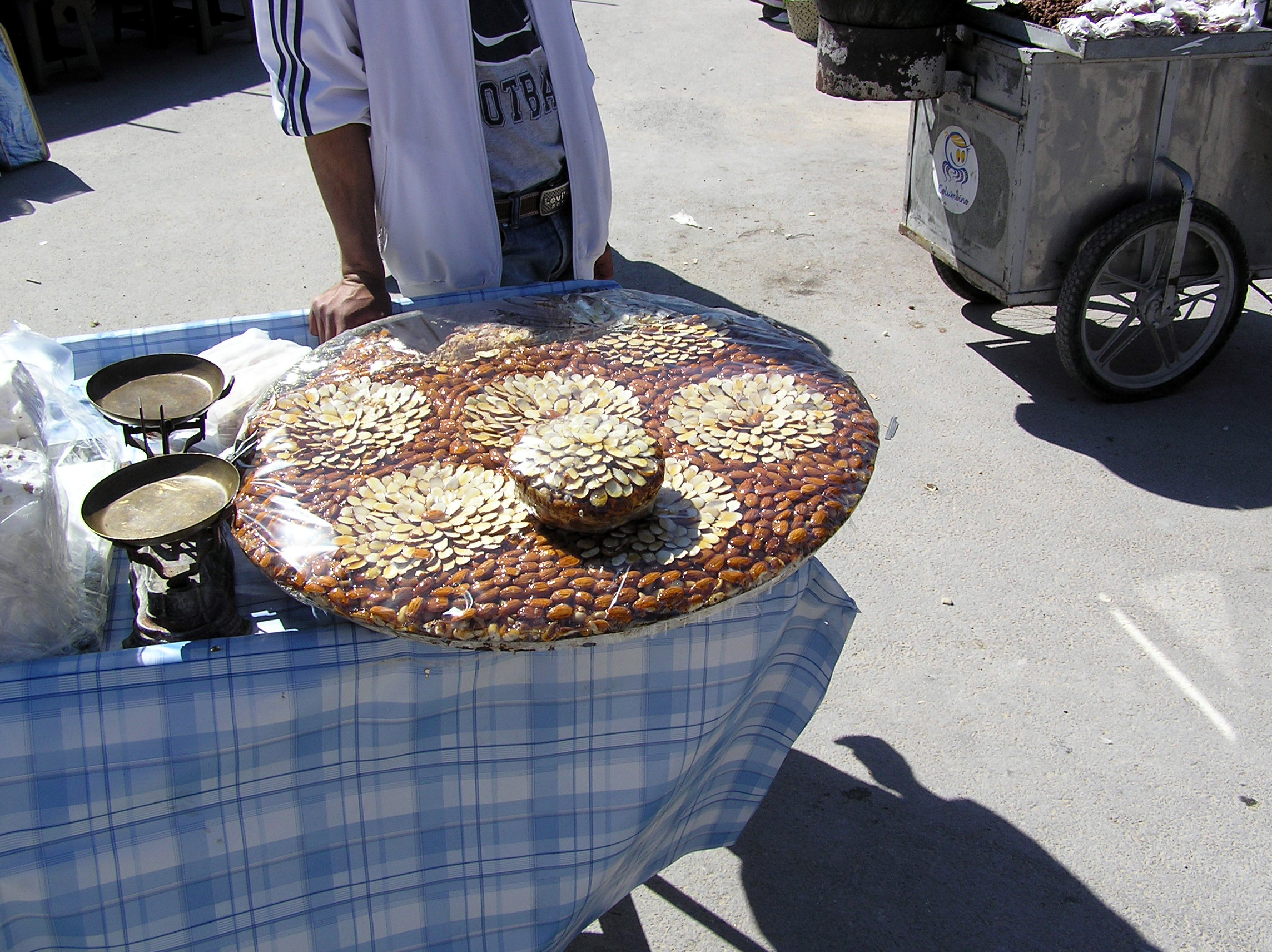 Looks like a big almond pie or so. Anyone know?